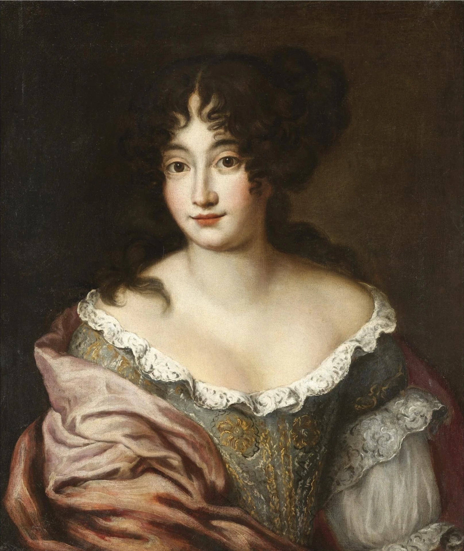 Portrait of lady, half length